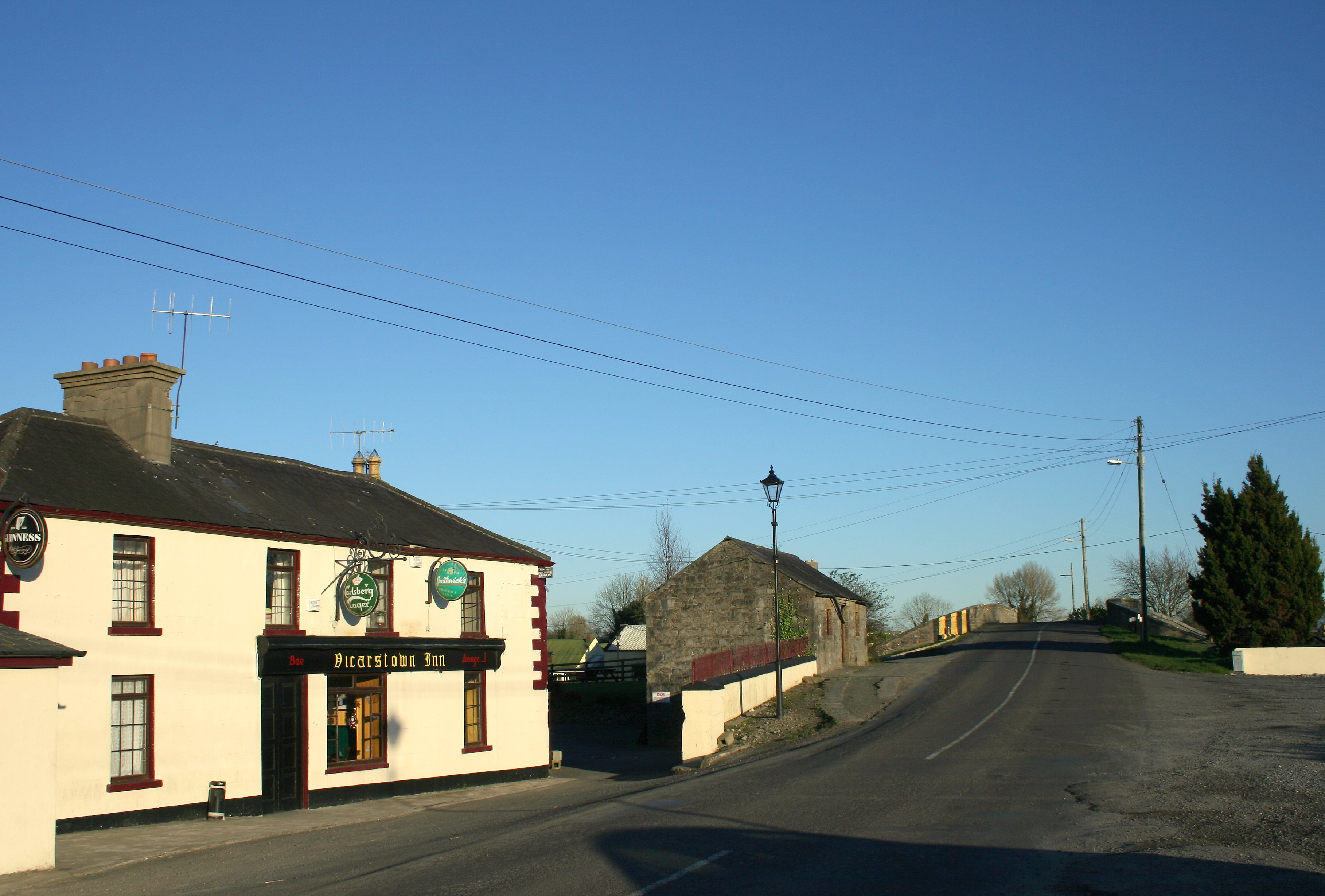 R427 crossing the Grand Canal at Vicarswtown, County Laois, Ireland